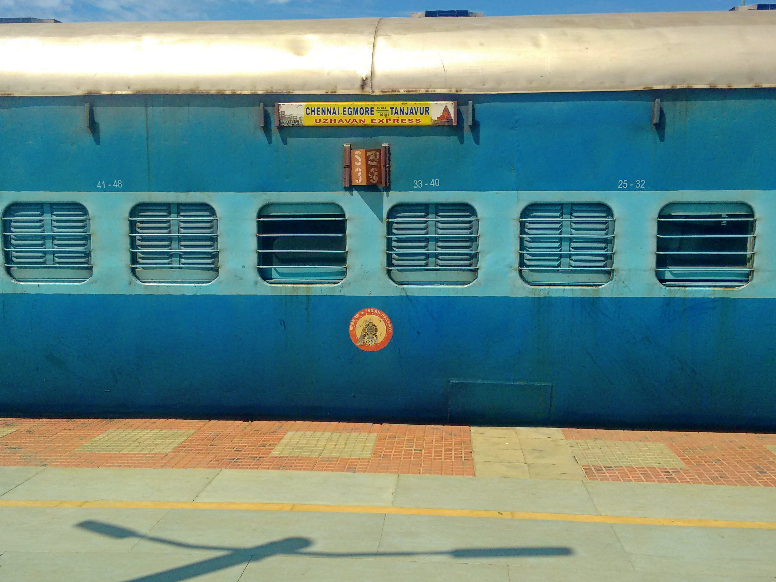 Uzhavan Express in Thanjavur